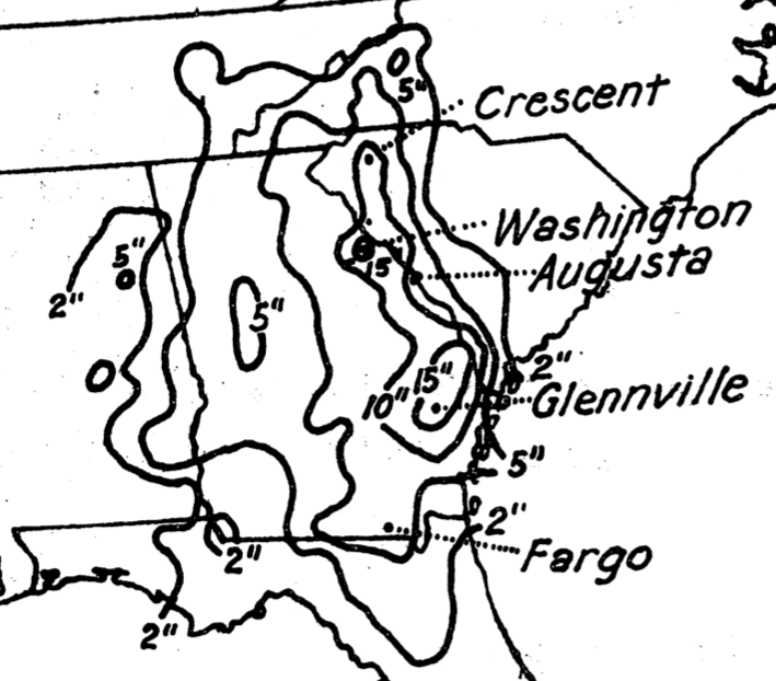 September 23-28, 1929 rainfall from the Bahamas hurricane